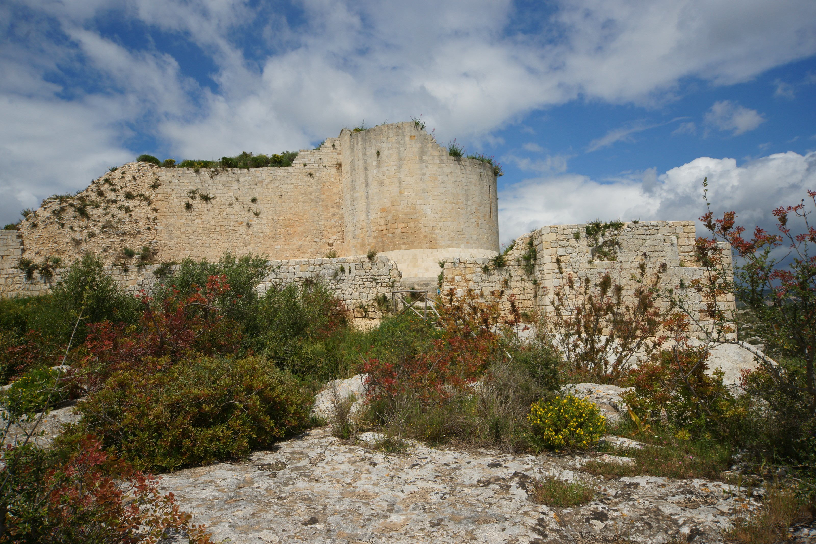 Noto Antica: Palazzo reale